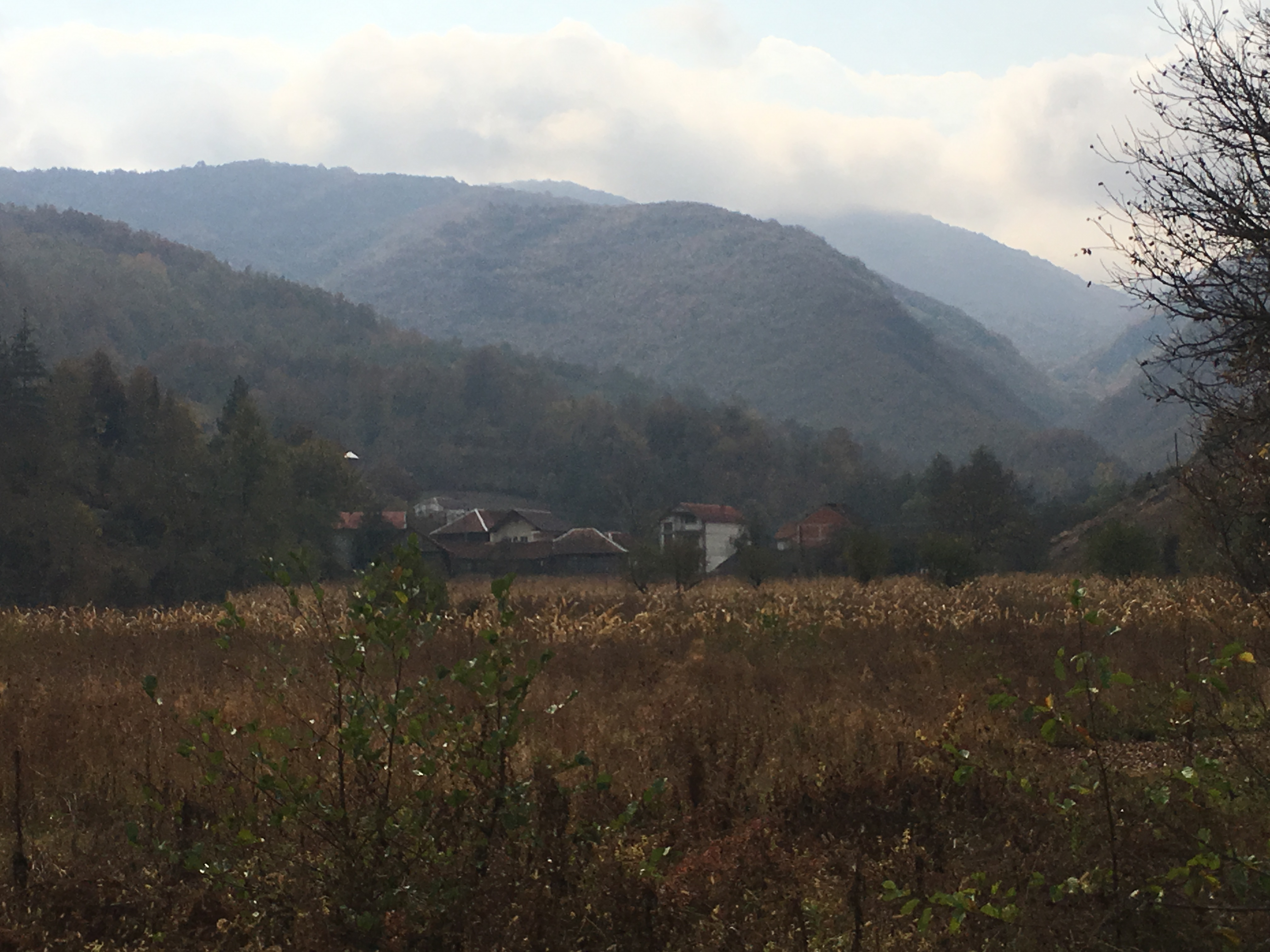 Wikiexpedition to Kopačka